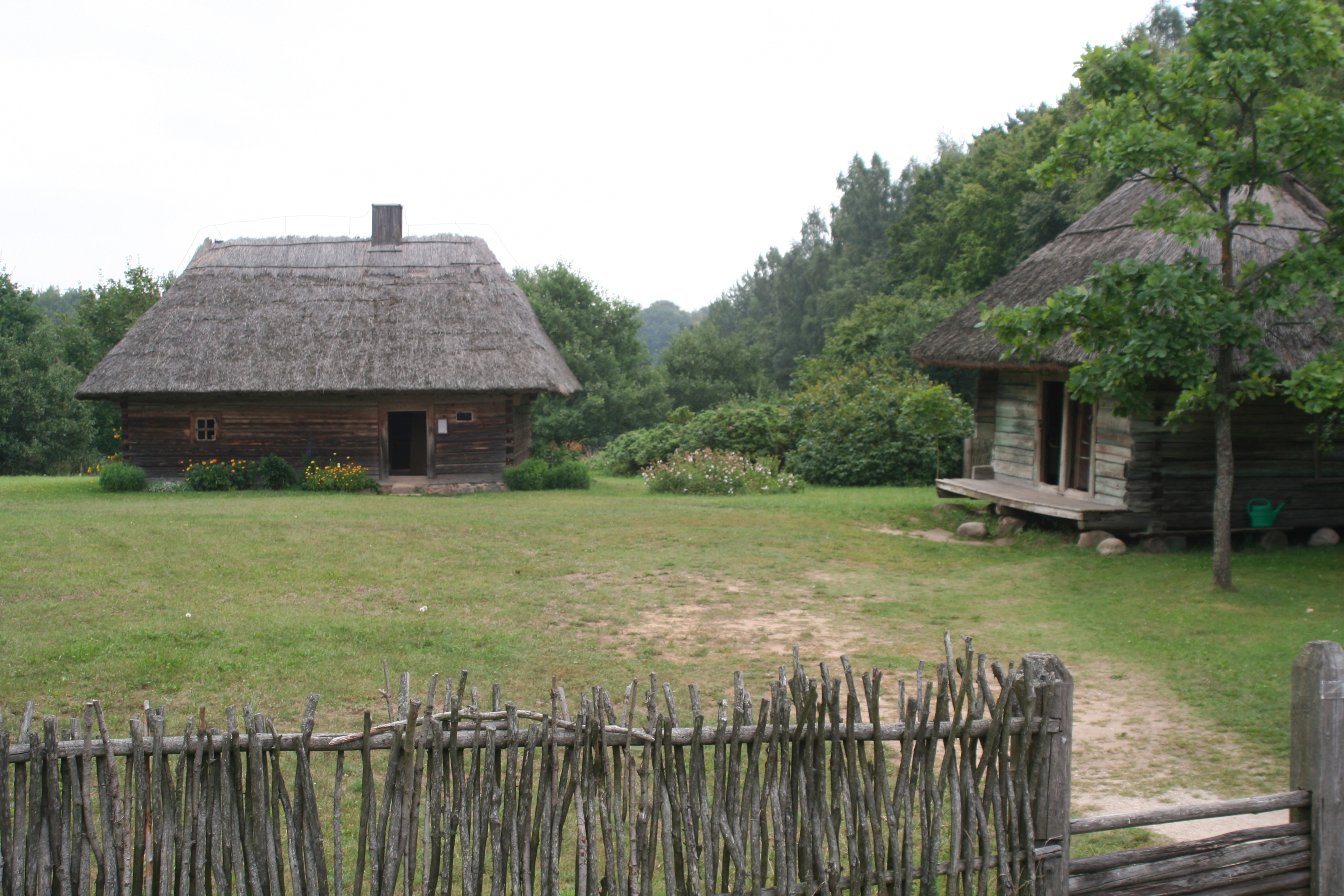 Rumšiškės, Lithuania. Ethnographic open air museum. House of village Vaismaldai (left), Telšiai district.